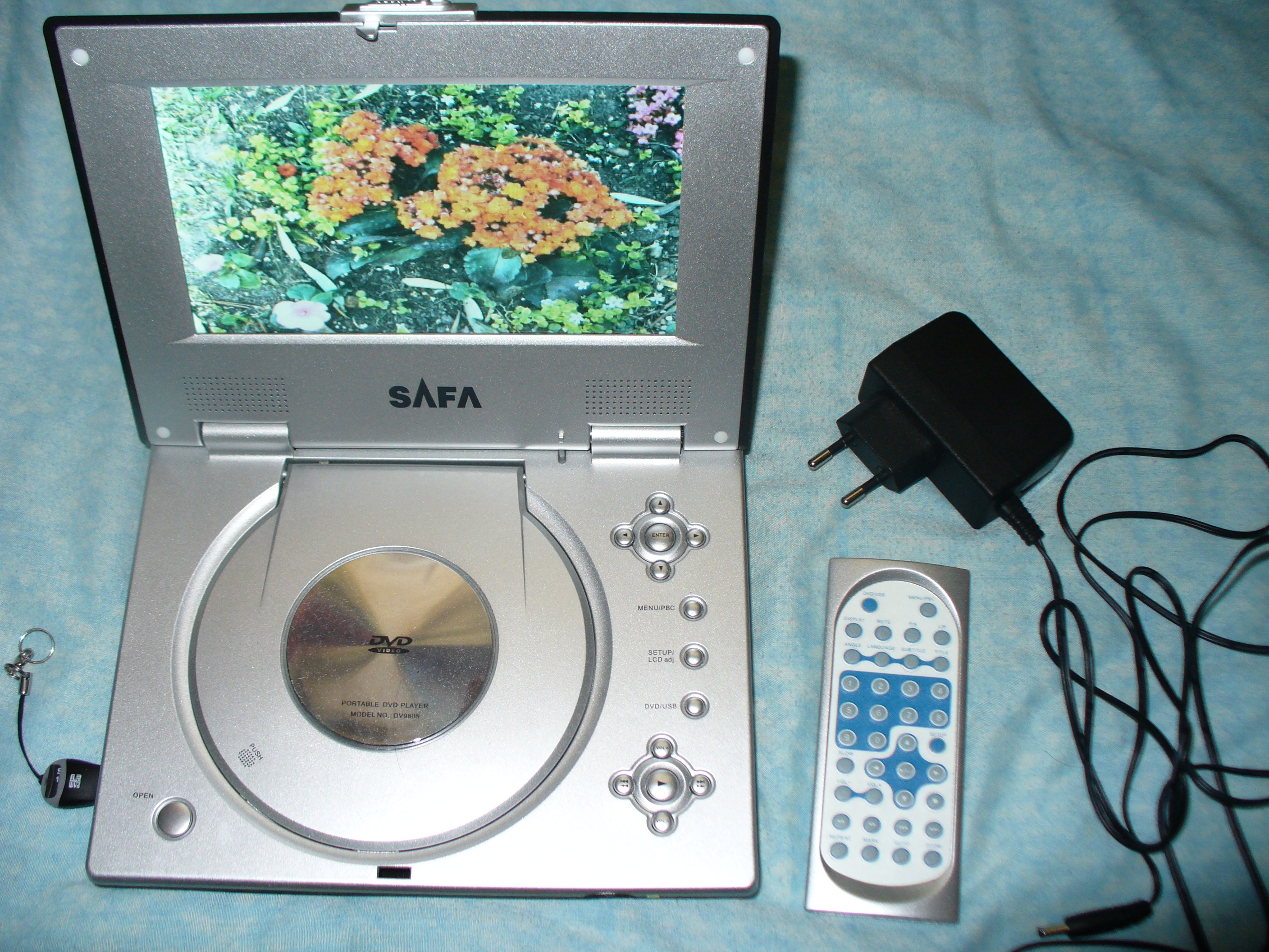 Safa/Fuss/Saba/Promedion DV9805 Portable DVD player with its remote control and charger, displaying a picture I took